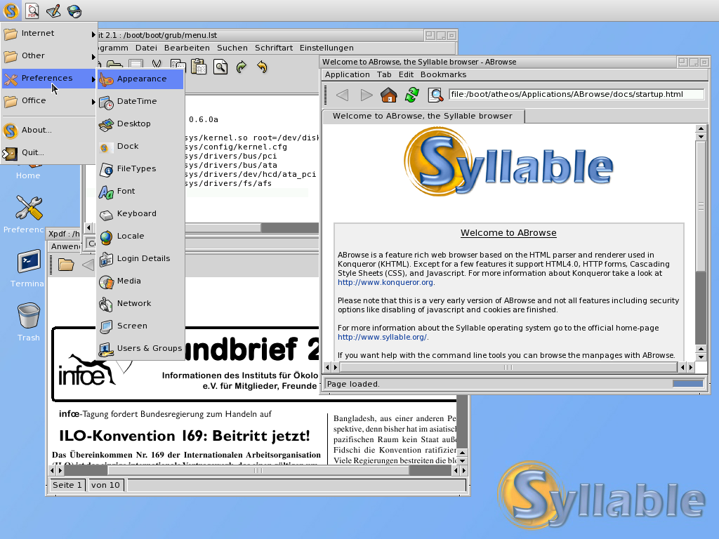 Screenshot of Syllable 0.6.0a with web browser (ABrowse) text editor (AEdit) and PDF viewer (xpdf)